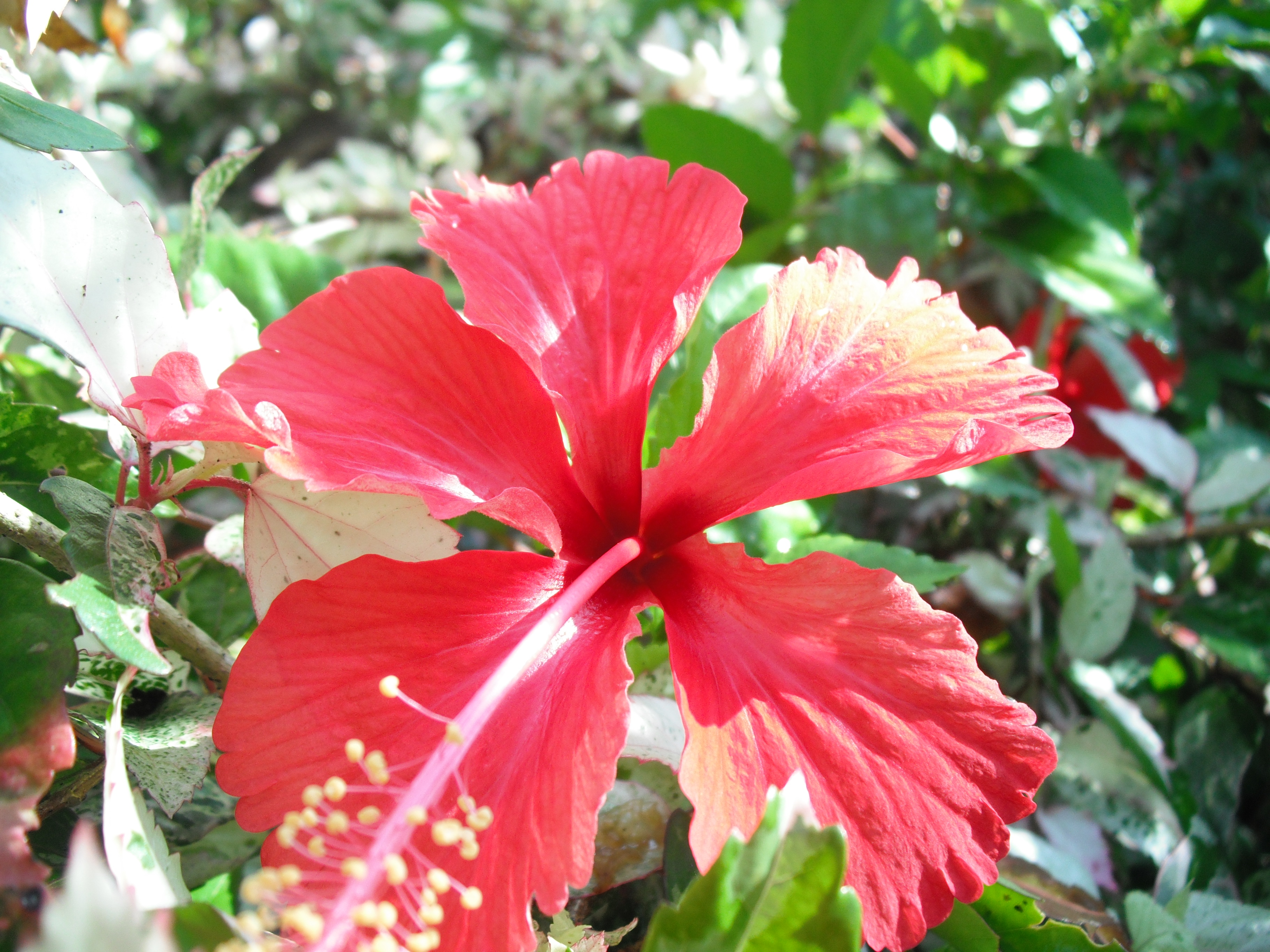 the most beautifull flower